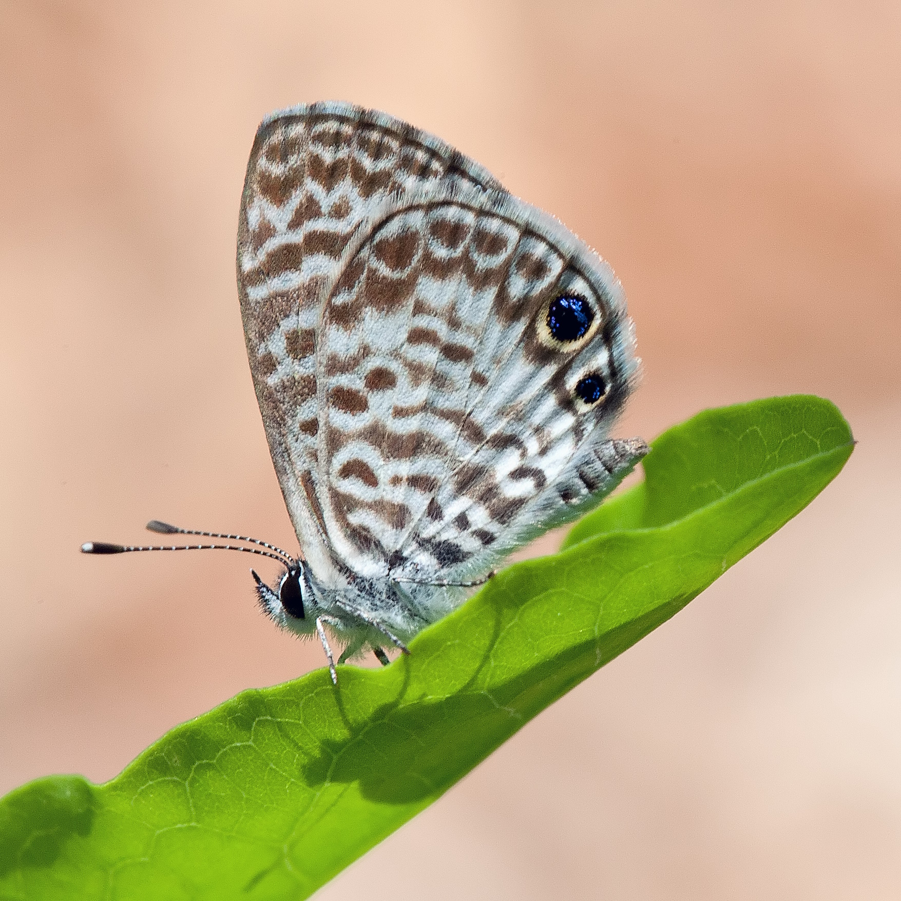 Cassius Blue Butterfly, Columbia